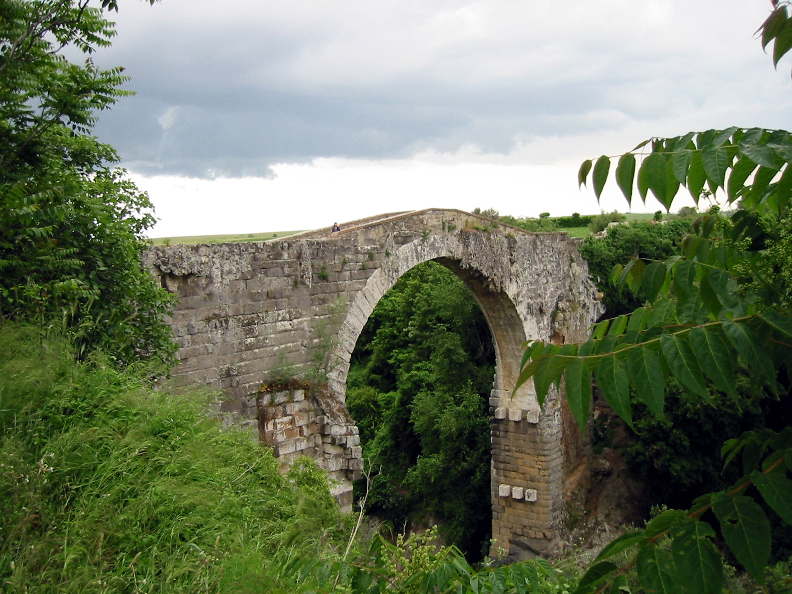 An etruscan bridge at Vulci in the province of Viterbo in Italy.